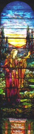 Tiffany Window in First Presbyterian Church, Springfield, Illinois U.S.A.